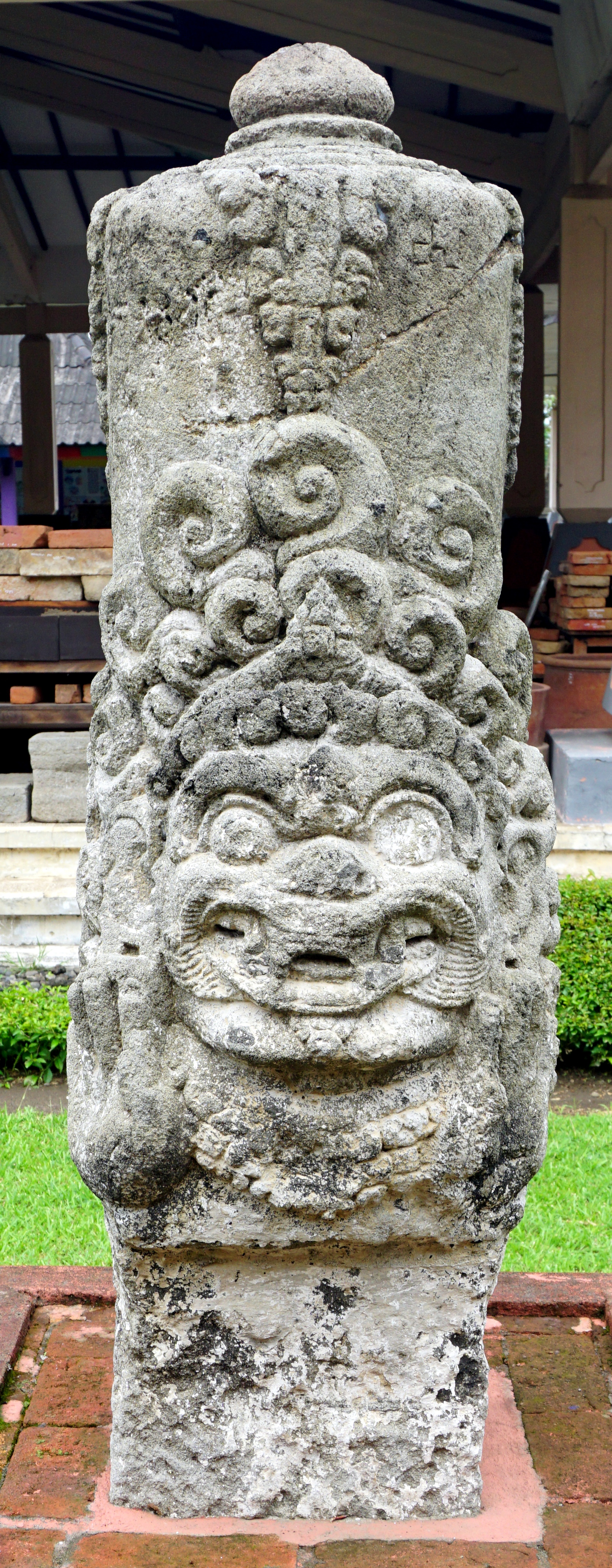 Trowulan, East Java